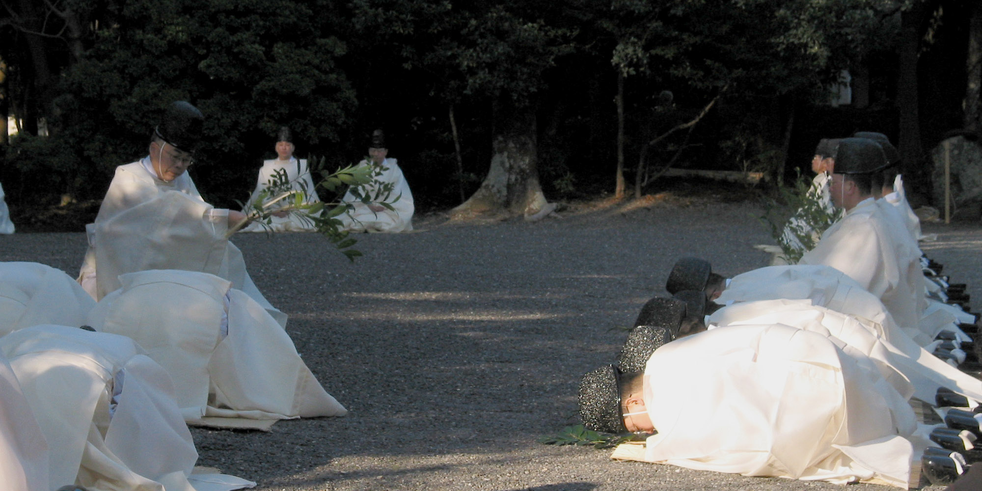 Toshikoshi-Ōharai (Ōharai on the last day of the year, at Daiichi-Torii-Nai-Haraedo, Naiku), Place:Ujitachi Ise City Mie Pref., Japan. used, traditional Ōnusa, so lace of the Hemp added to tree of Sakaki (Cleyera japonica).